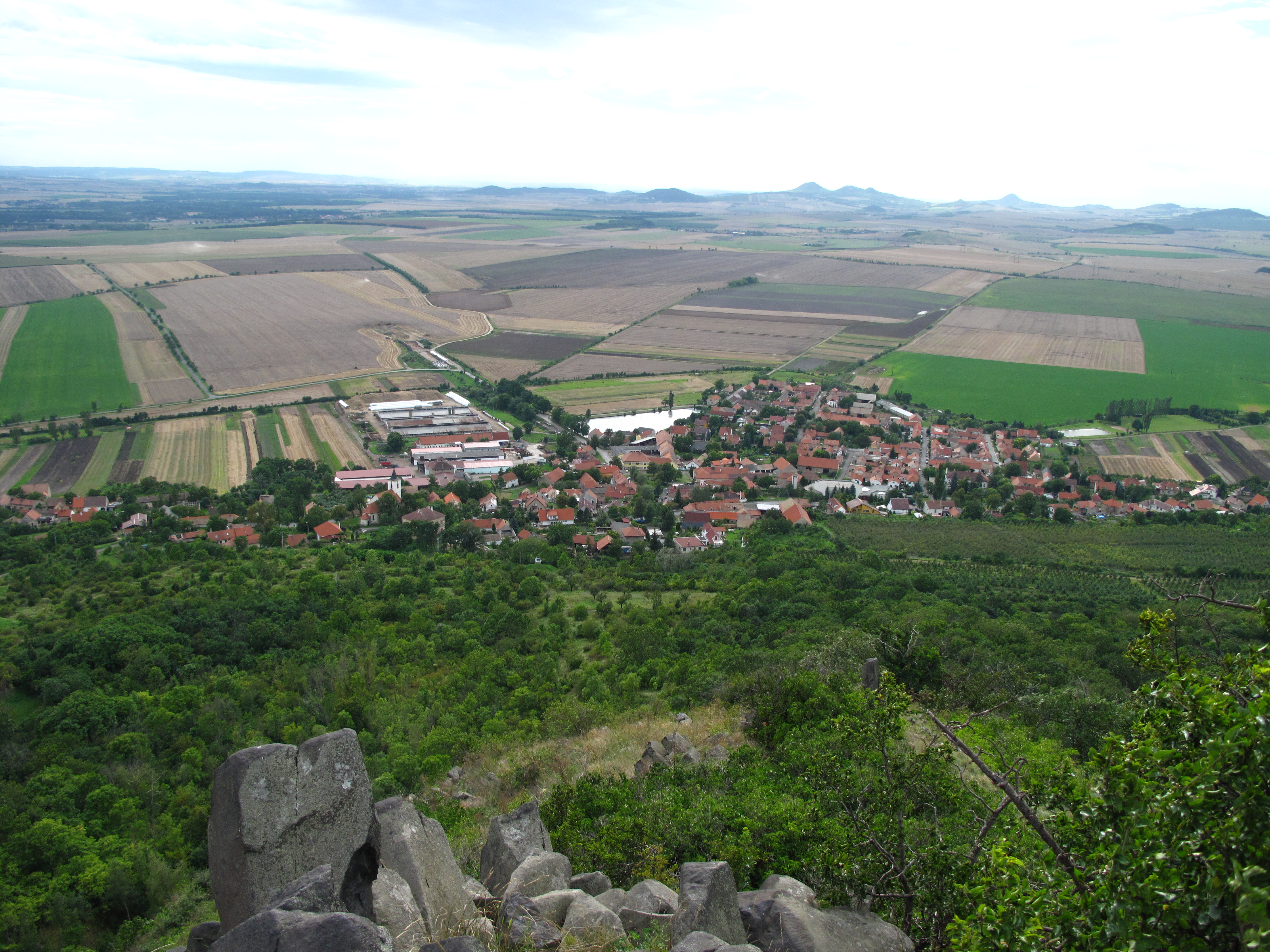 Klapý village as seen from Hazmburk Castle (ruin), Litoměřice District, Czech Republic.